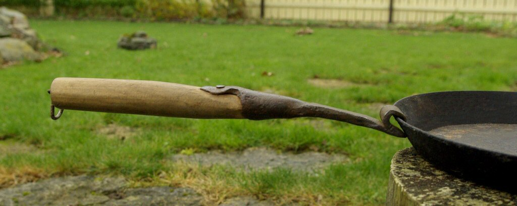 A tool used for lifting pans and pots